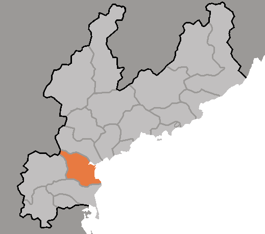 Map of Chonpyong, Hamgyong-namdo, DPRK, 2006